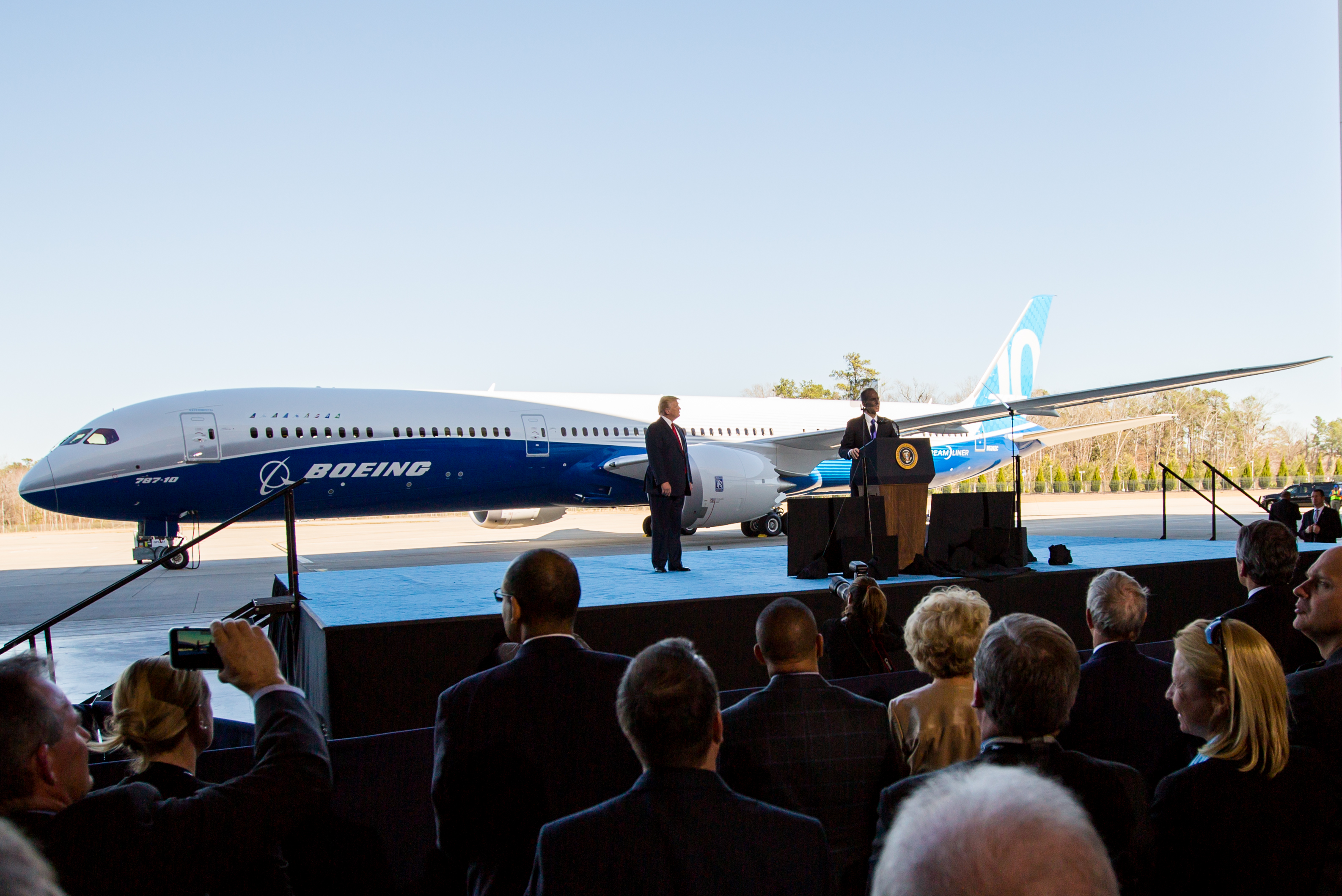 On February 17, 2017, Boeing South Carolina in North Charleston, SC rolled out the first 787-10. US President Donald Trump (POTUS) was in attendance at the ceremony. The 787-10 will be built exclusively in North Charleston, SC.